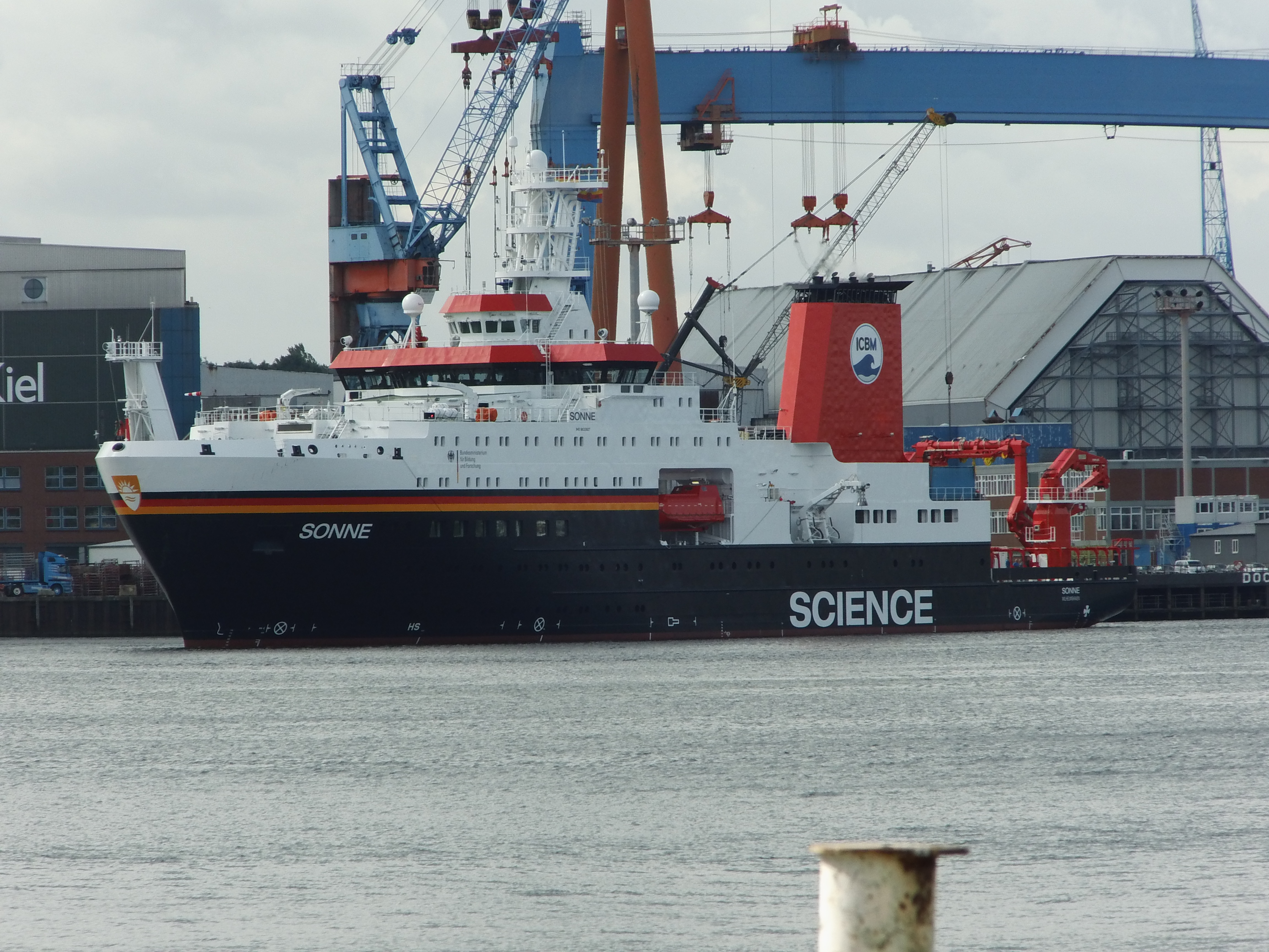 research vessel Sonne in Kiel